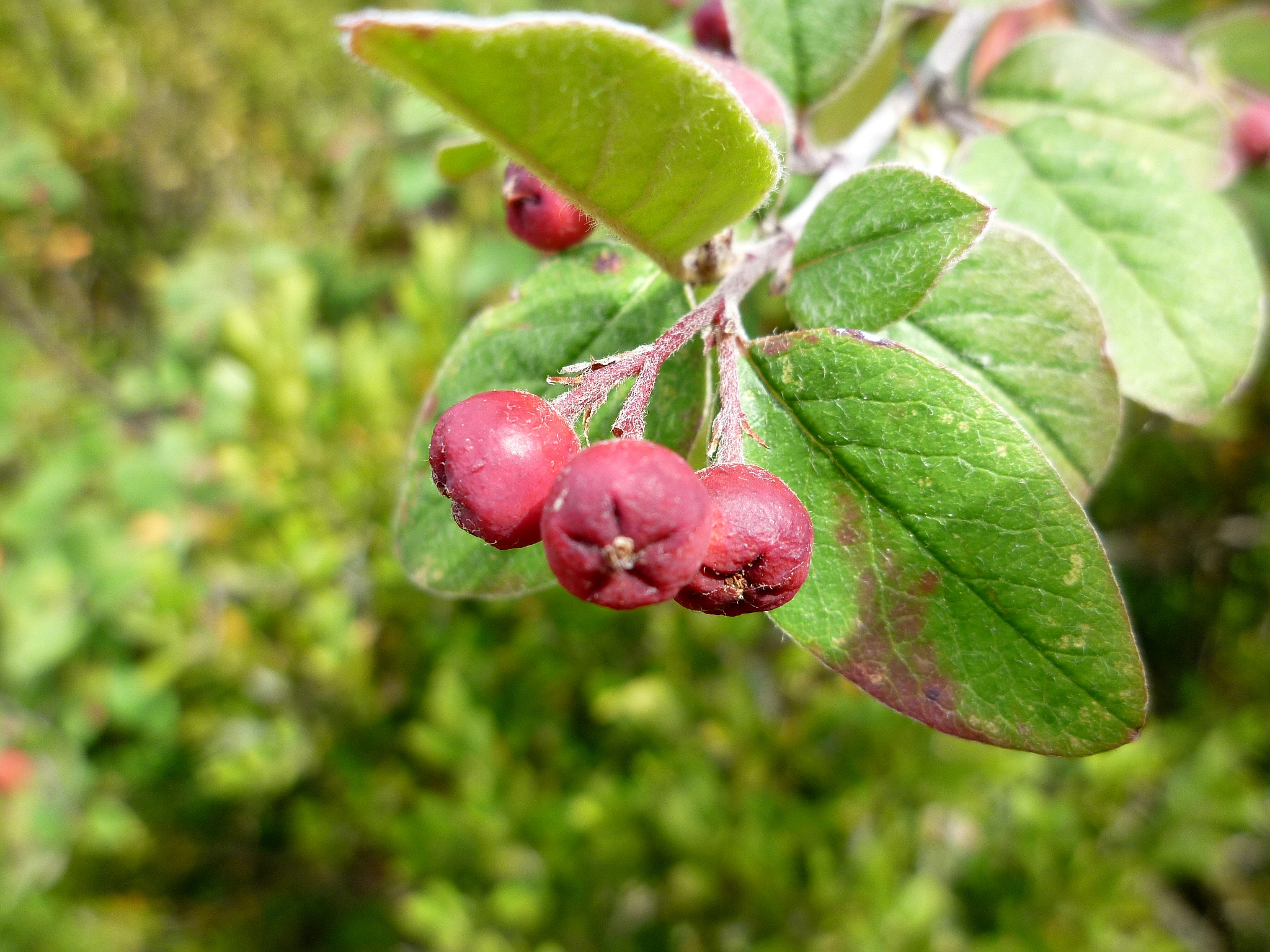 Cotoneaster integerrimus. In la Bòfia, Guixers (Solsonès - Catalunya). To 1.750 m. altitude.